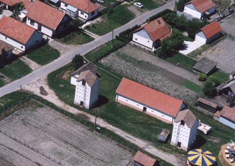 Monostorpályi, Hungary, aerialphotography This is a photo of a monument in Hungary. Identifier: 5360